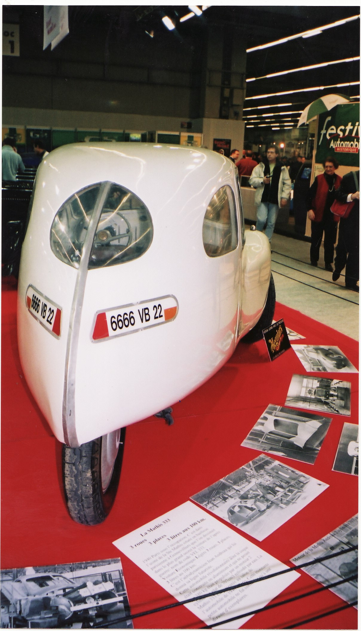 Designed by Andreau. Intriguing. Spotted at Retromobile 2005